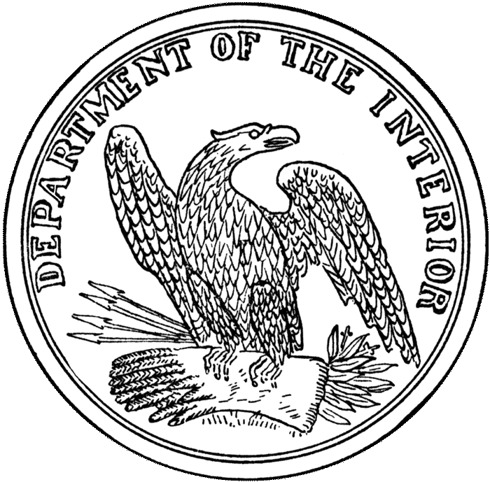 The seal of the U.S. Department of the Interior, used from 1849-1913